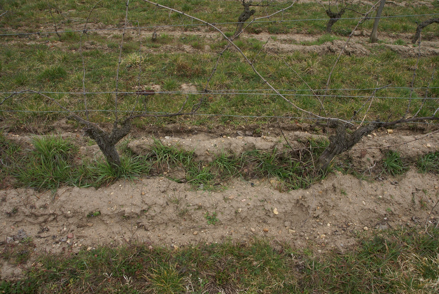 Alluvium in vineyard (AOC Orléans-cléry) at Mareau-aux-Près, Loiret, Centre, France